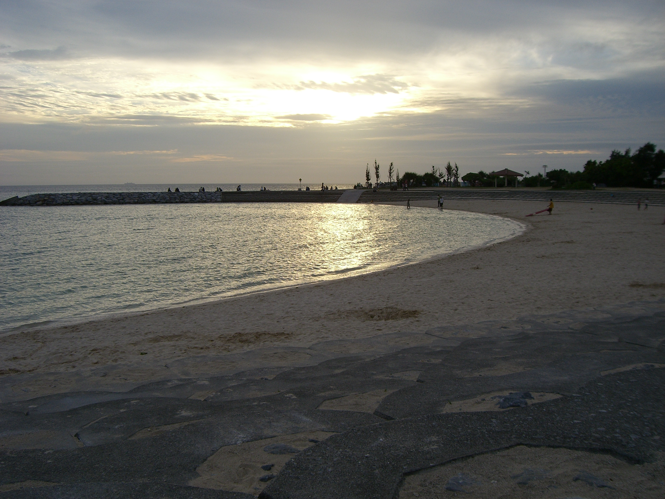 The Chatan Sunset Beach in the Chatan Park, Okinawa, Japan.